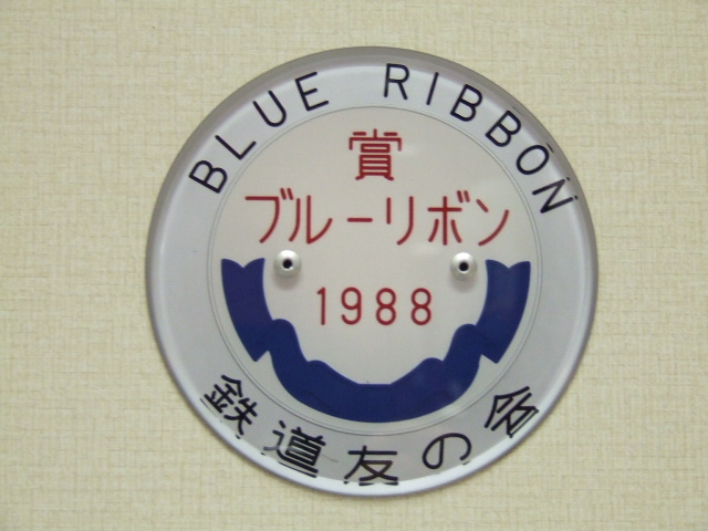 Japan Railfan Club 1988 Blue Ribbon Award plaque inside an Odakyu 10000 series "HiSE" EMU